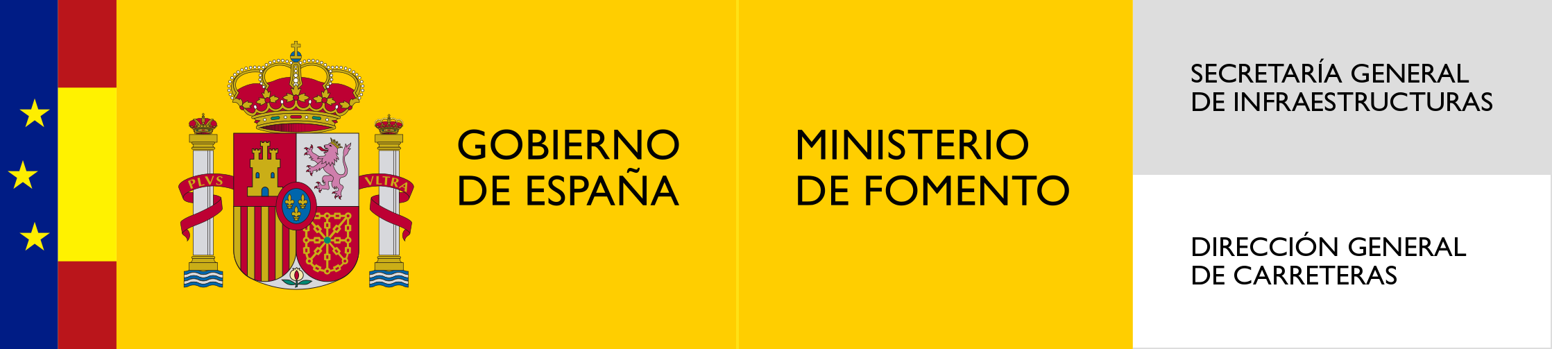 Logo of the Directorate-General for Roads of Spain